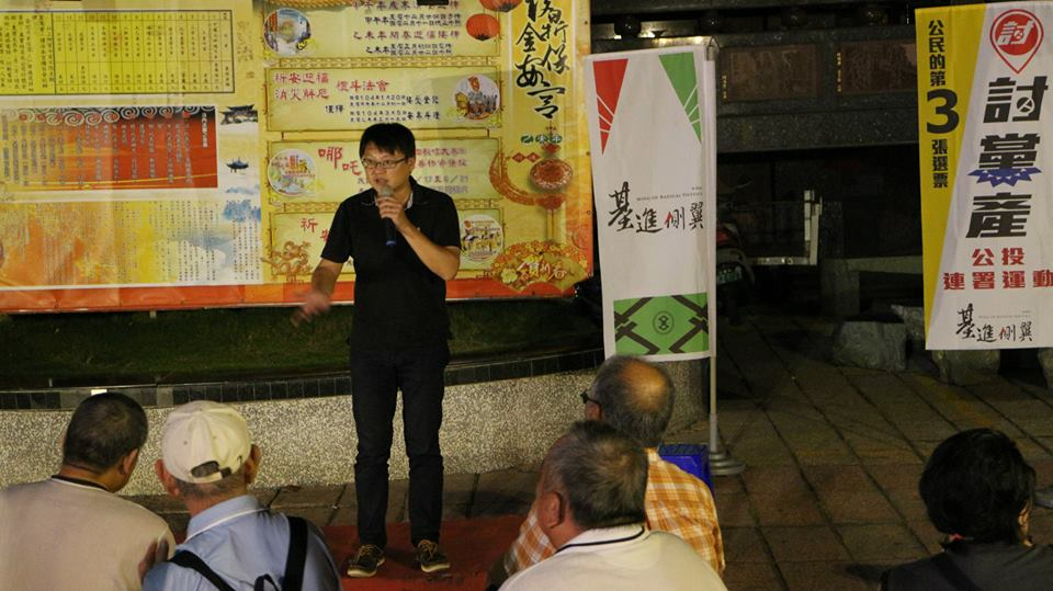 討黨產公投2